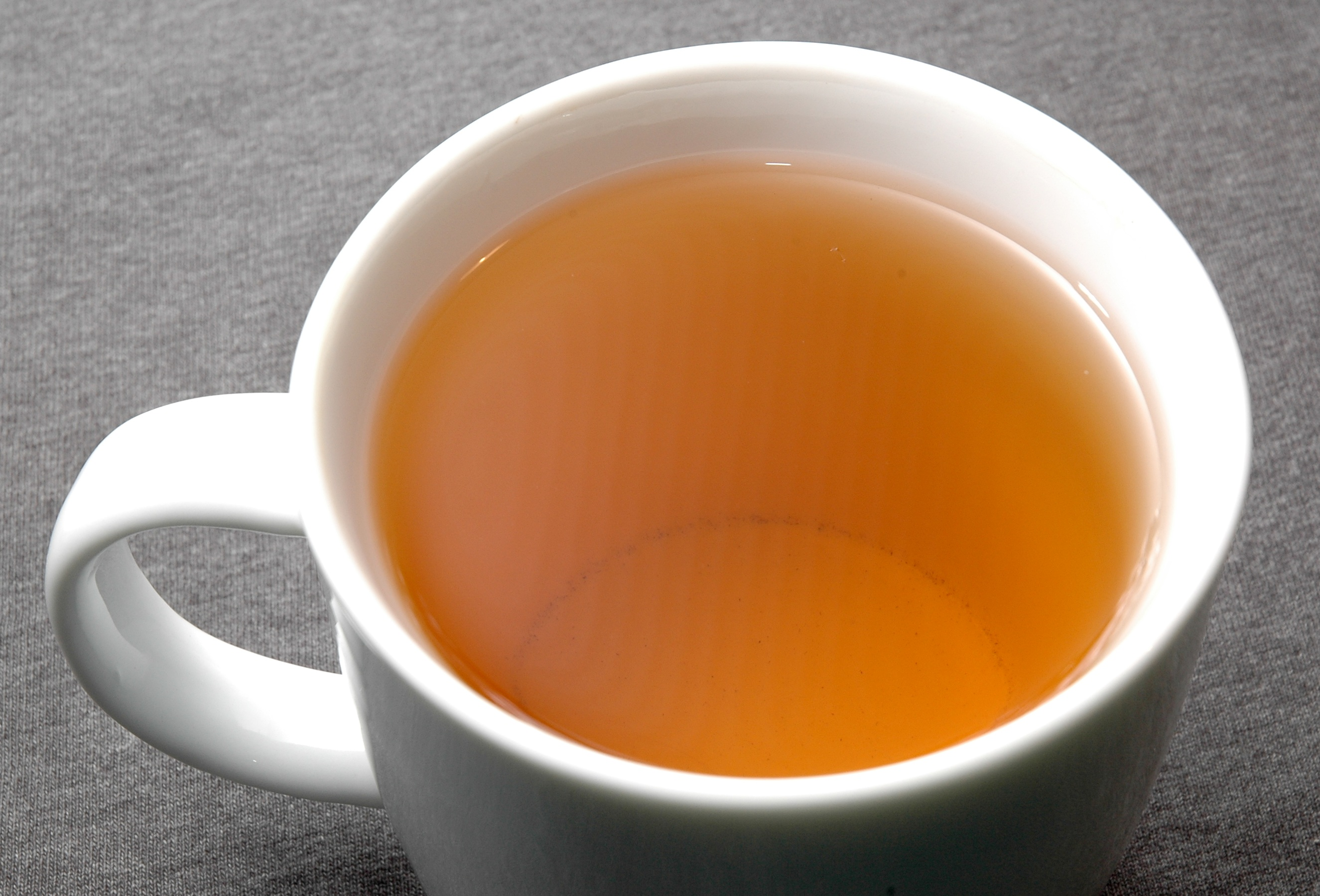 Darjeeling tea, first flush 2007, Risheehat Estate, SFTGFOP1 CH/FL